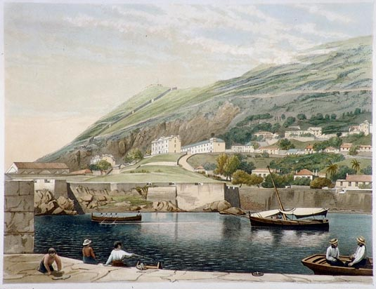 A Picture from the Garrison Library in Gibraltar - Garrison Library Picture - South Barracks from Rosia Bay Thomas Colman Dibdin - 1846